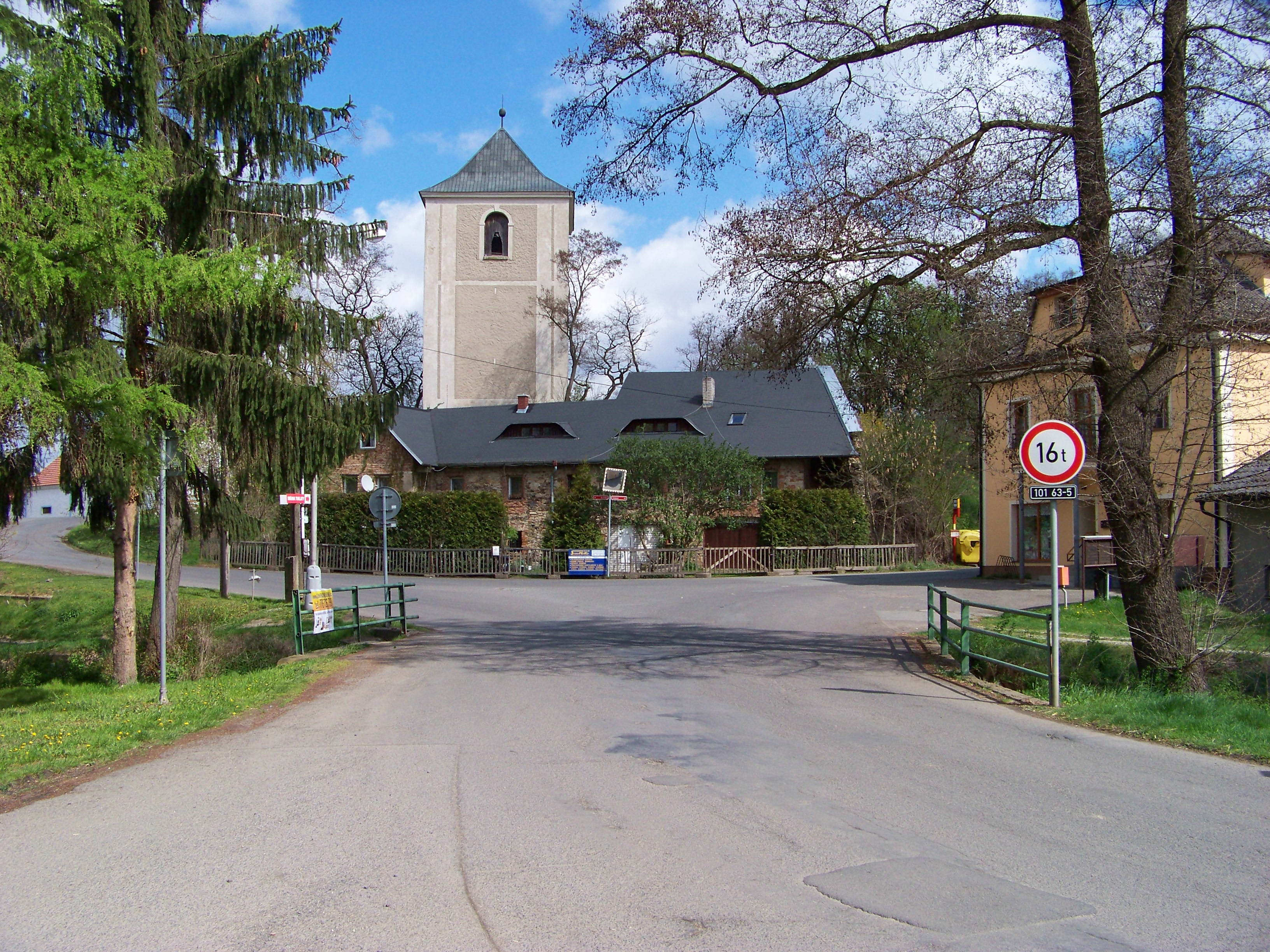 Tuklaty, Kolín District, Central Bohemian Region, Czech Republic. Hlavní street, a bridge over the Tuklatský potok, Akátová 28 and a bell tower. - Google Maps - Google Earth